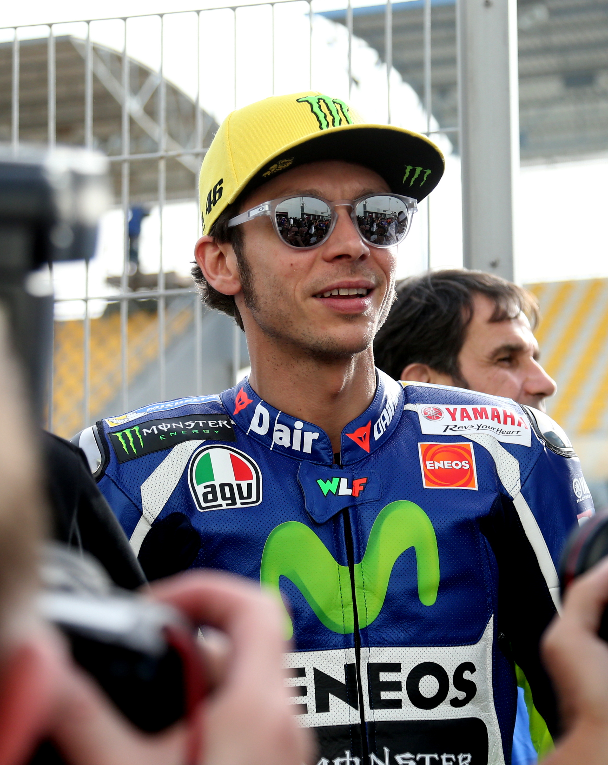 Valentino Rossi at Losail International Circuit Qatar photo by Hanson